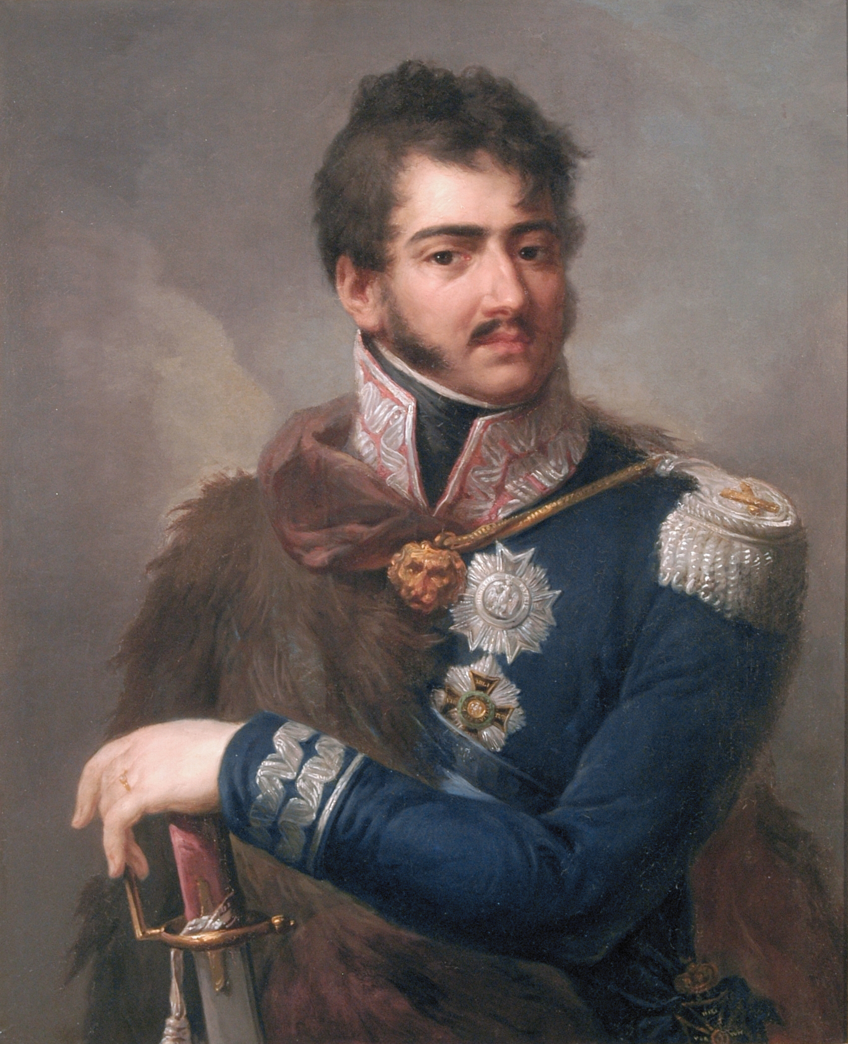 Prince Jozef Poniatowski oil on canvas 85 x 69.5 cm after 1810